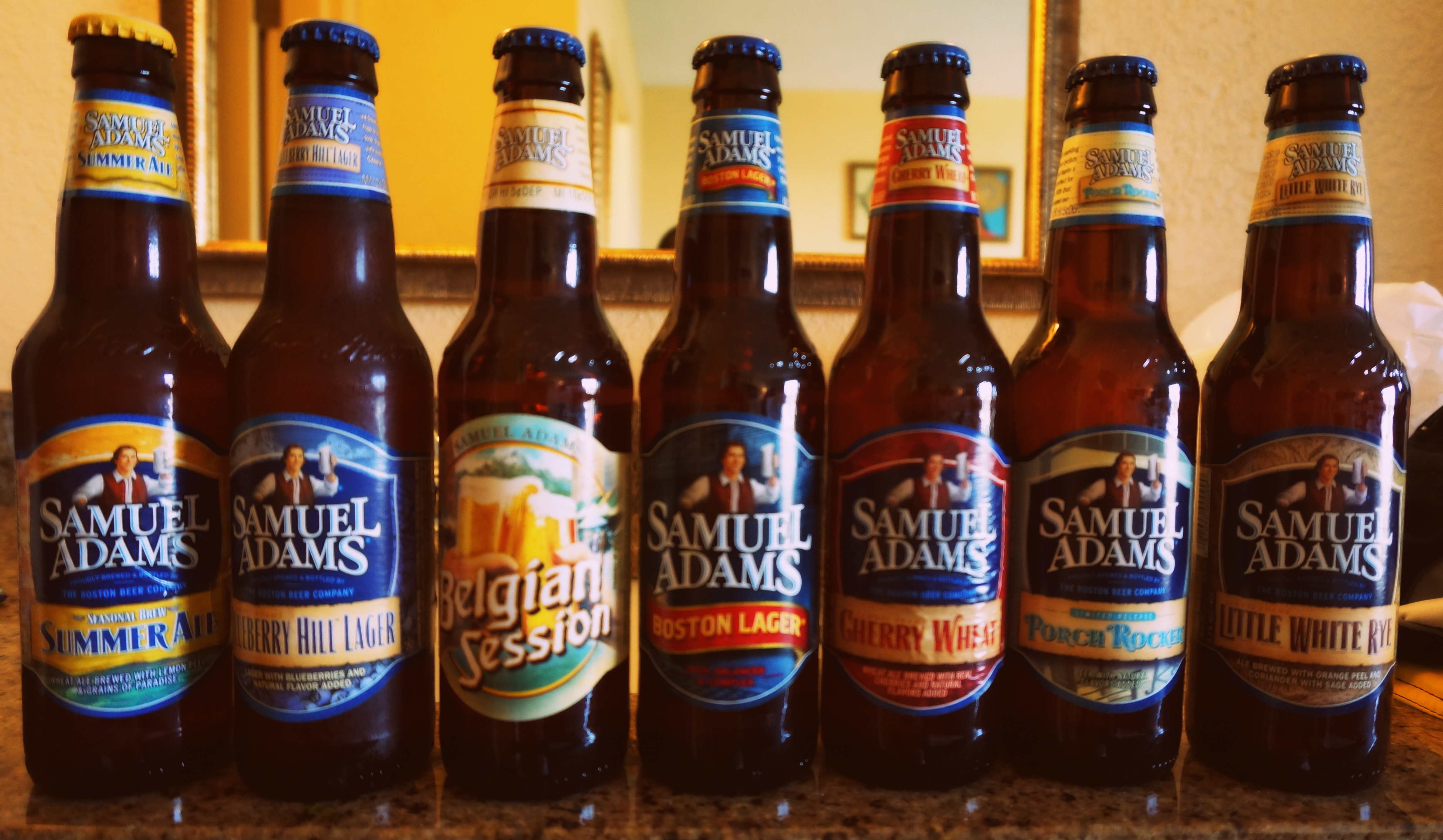 A line-up of different Samuel Adams beers. Summer Ale, Blueberry Hill Lager, Belgian Sessions, Boston Lager, Cherry Wheat, Porch Rocker, Little White Rye. More freely usable pictures related to spirits, beer, distilling etc.